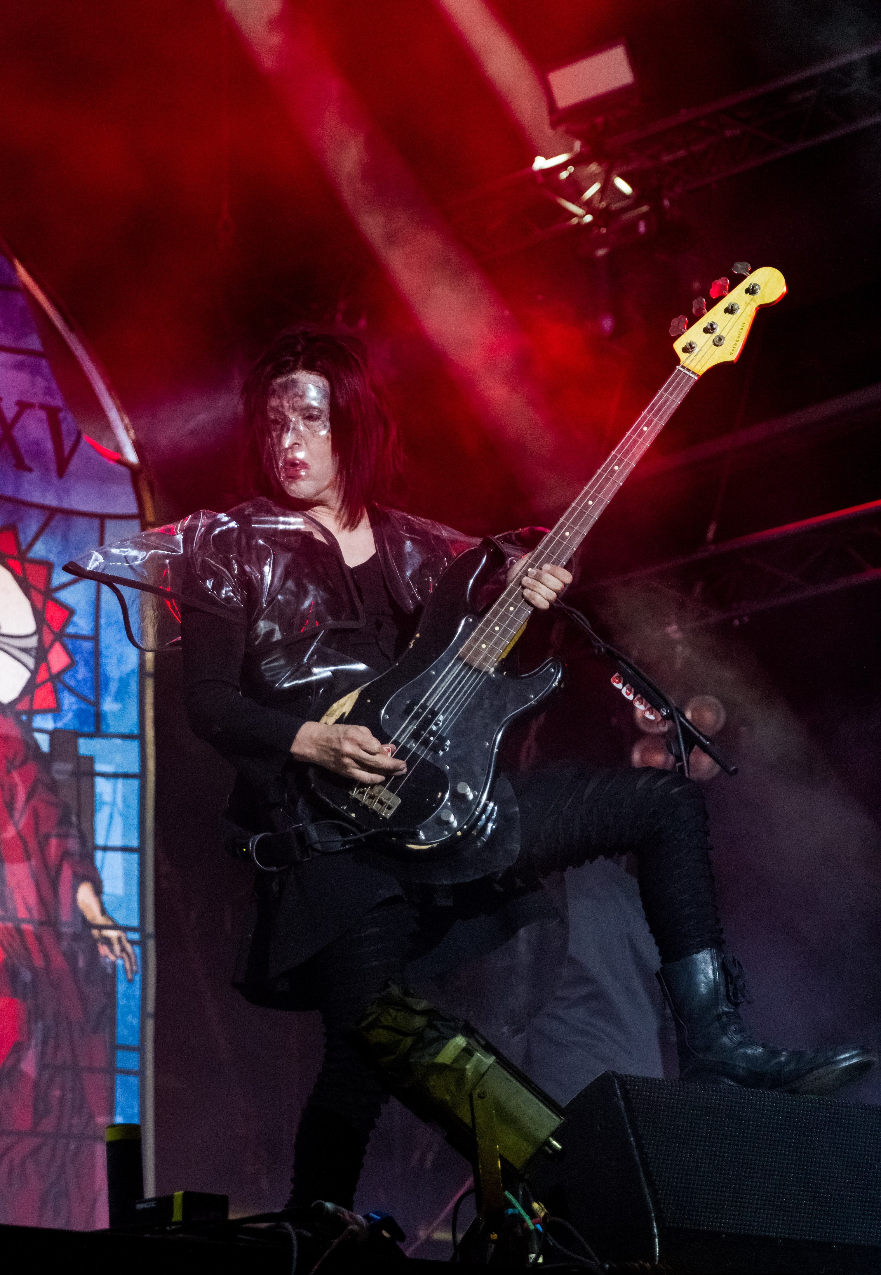 Marilyn Manson - Rock am Ring 2015